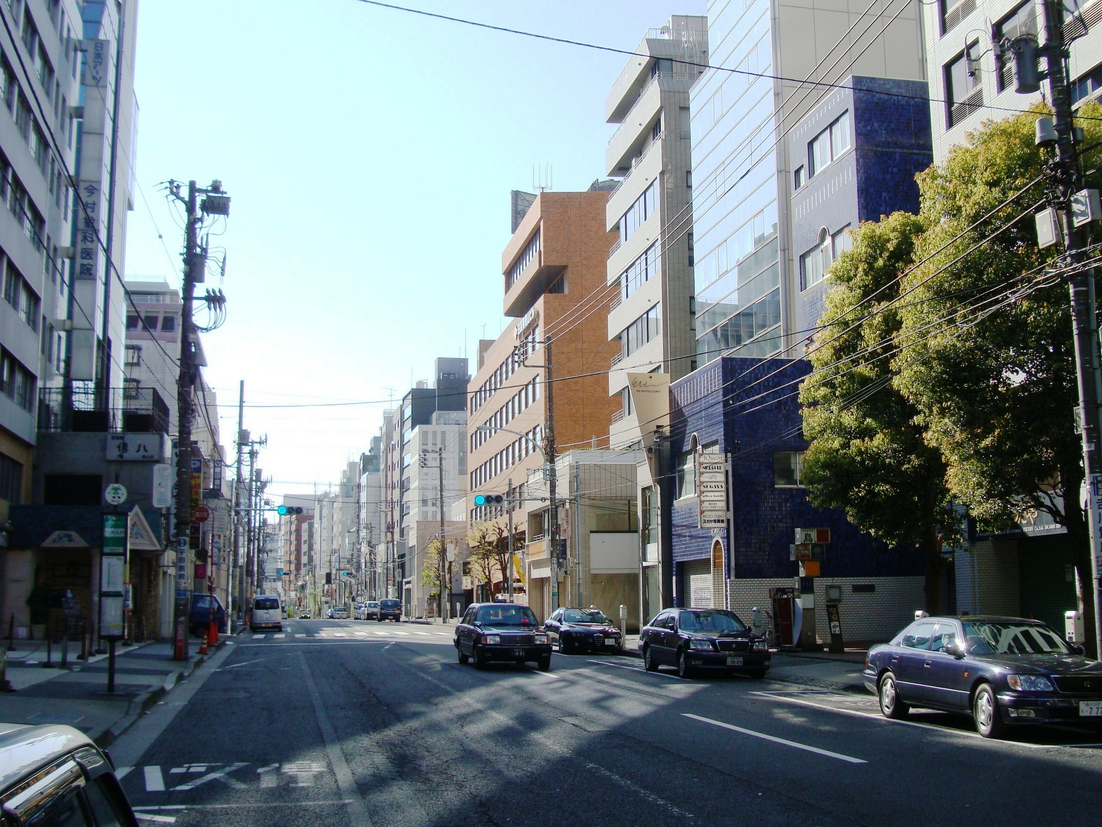 Kotto Dori street, Tokyo in the morning